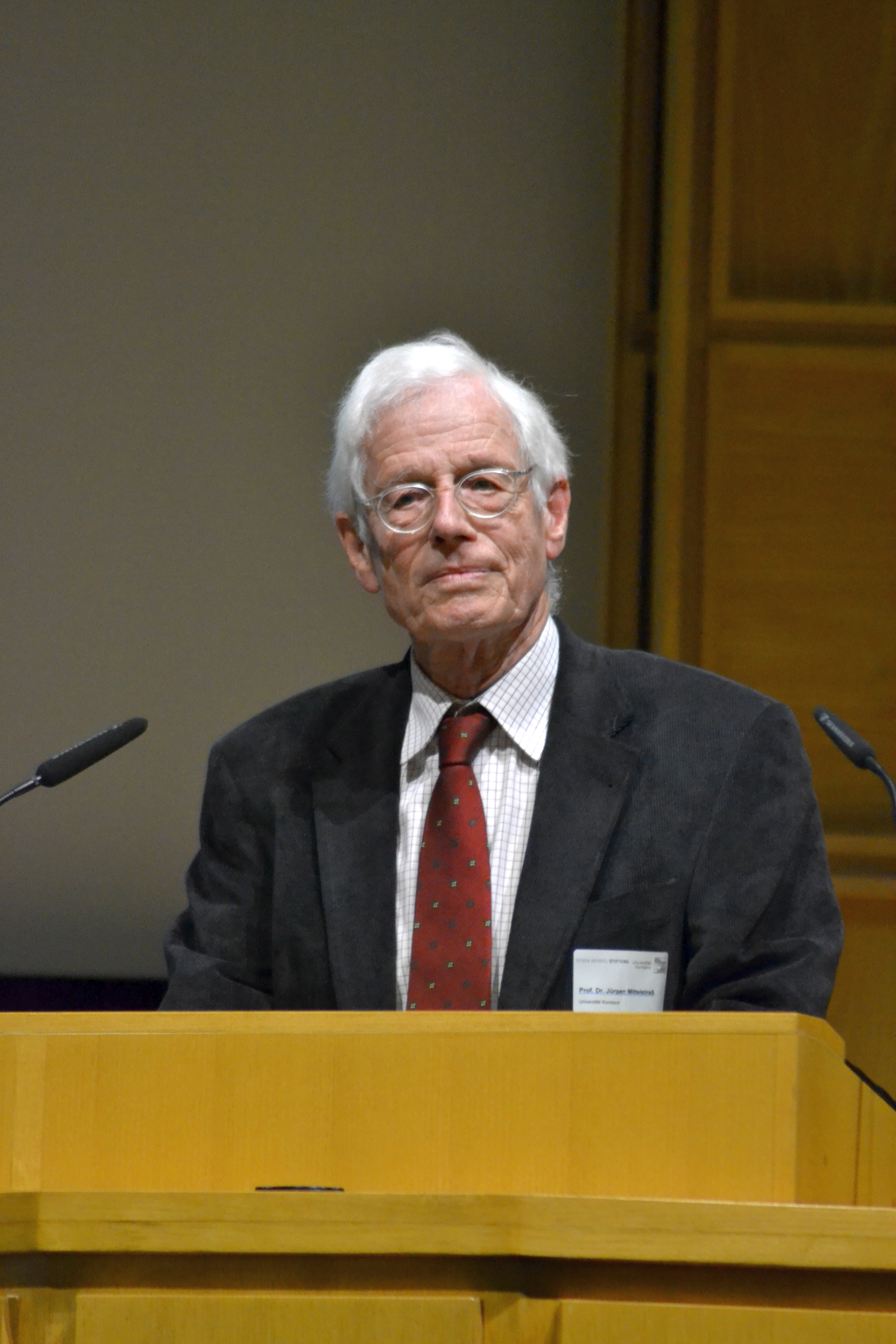 Conference "Die Zukunft der Wissensspeicher: Forschen, Sammeln und Vermitteln im 21. Jahrhundert" ("Future of the knowledge stores") of the University of Konstanz with the Gerda Henkel Stiftung at the Nordrhein-Westfälischen Akademie der Wissenschaften und Künste in Düsseldorf on 5th and 6th of March 2015.